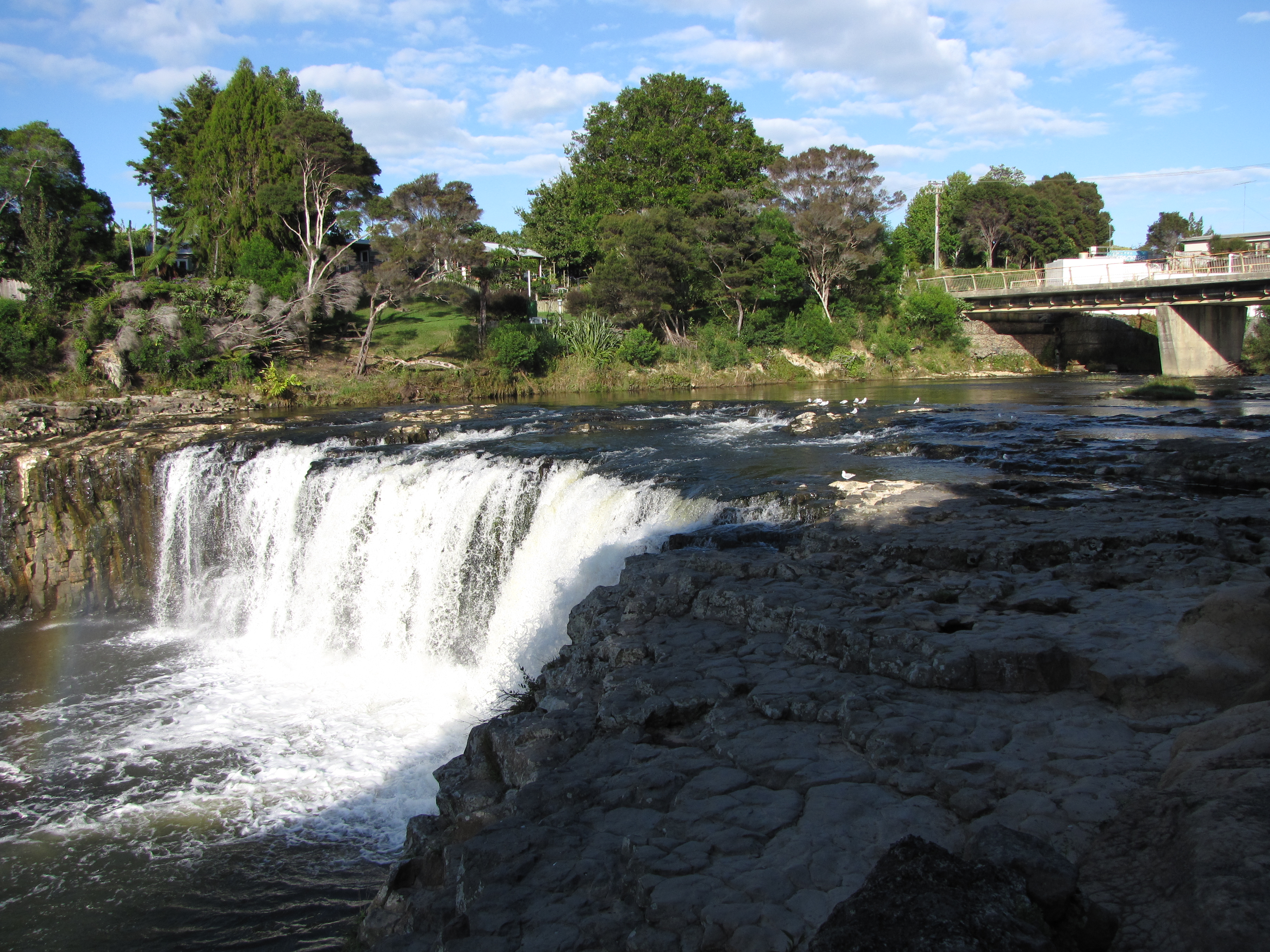 Haruru Falls is a waterfall about 5 km from Paihia, Northland, New Zealand.